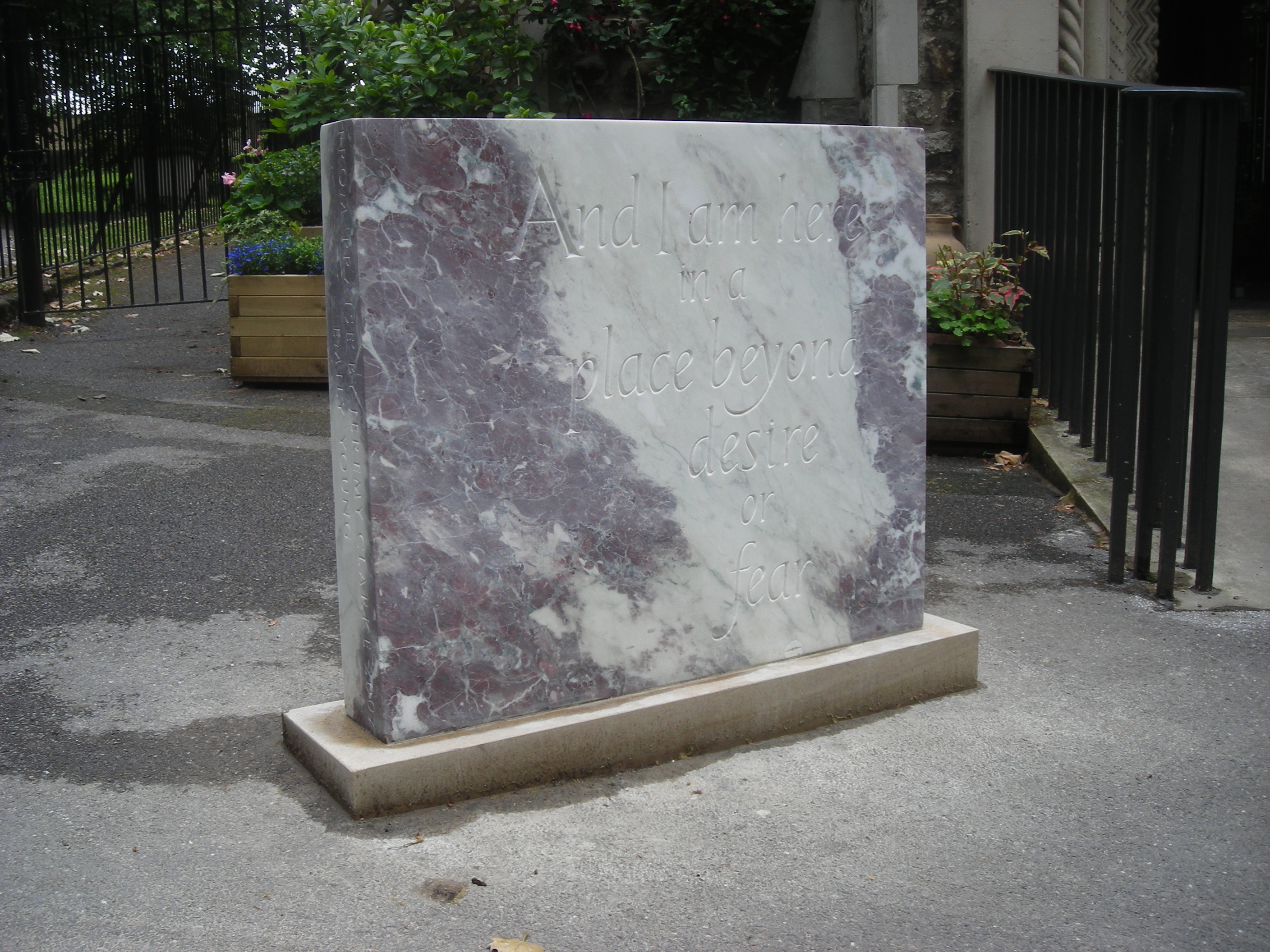 Image of the work in stone by Emily Young and Jeremy Clarke installed in St Pancras Old Church, London, in June 2009